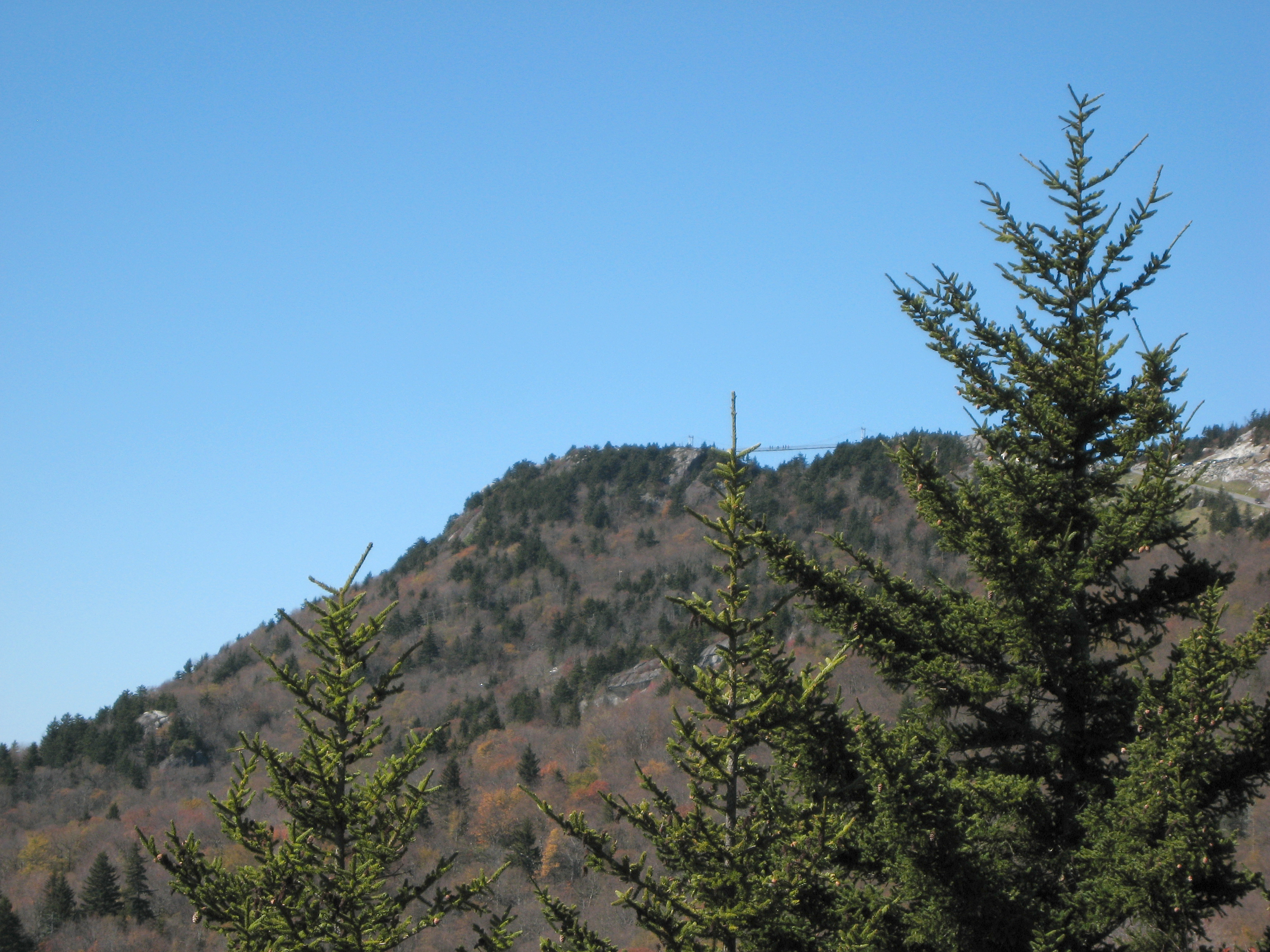 Picea rubens, Grandfather Mountain, Avery County, North Carolina, USA.